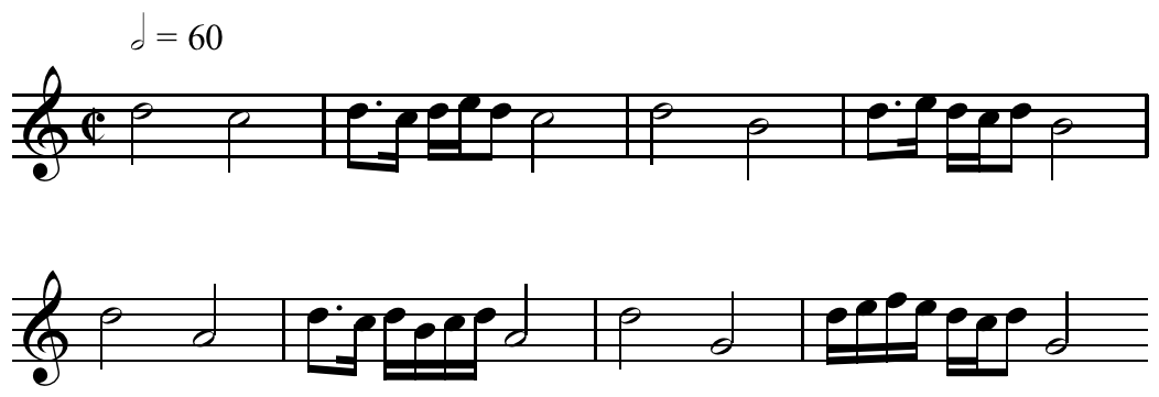 File:Trattado p.5.JPG translated into full and modern notation with values halved.